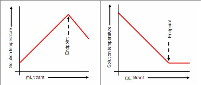 I am the originator of this image I am the originator of this image